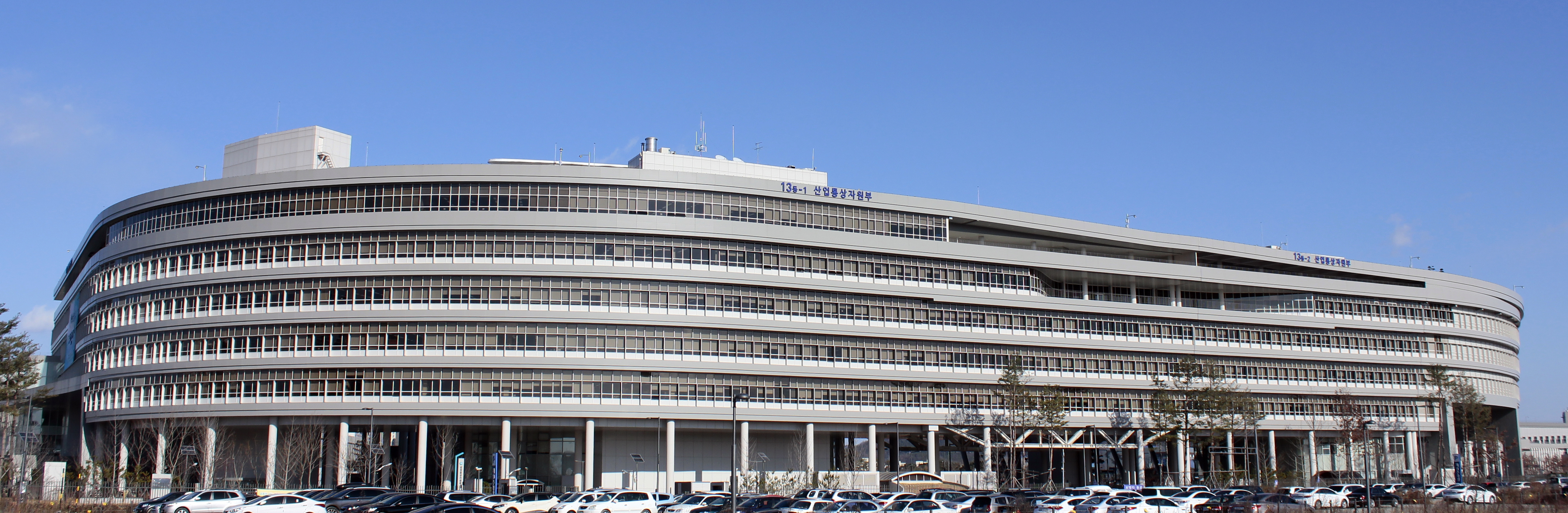 Ministry of Trade, Industry and Energy @Government Complex Sejong #12&13